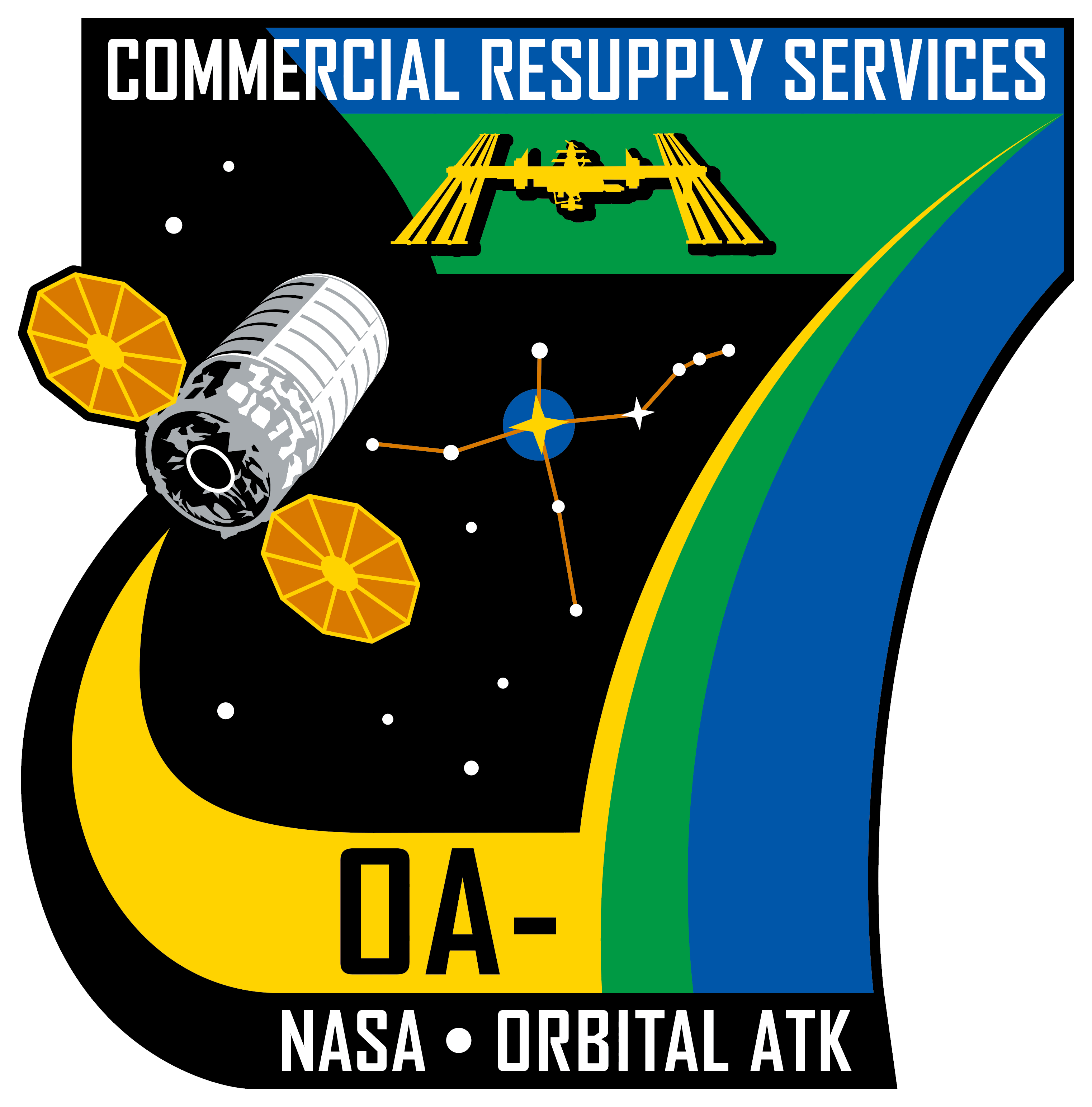 NASA insignia for Orbital ATK's OA-7 resupply flight